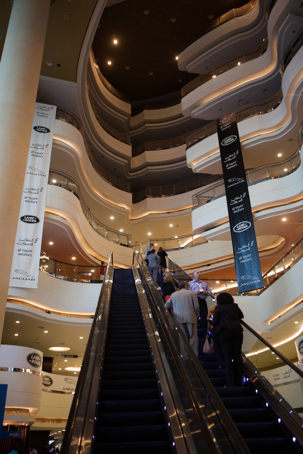 Al Tayer Motors is a regular sponsor of horseracing and also supports a domestic “Racing at Meydan” card in December as well as the 3200m stayers’ race, the Group 3 $1million Dubai Gold Cup on Dubai World Cup day, March 30 2013.